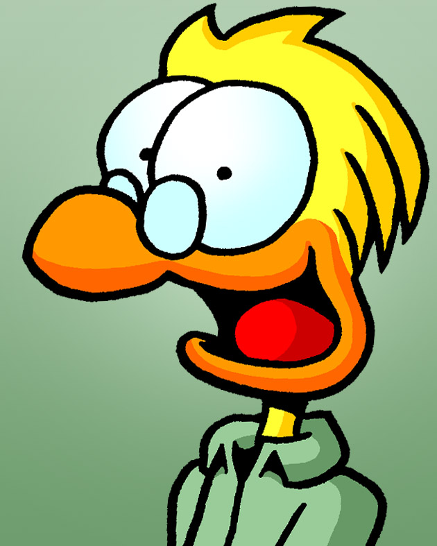 Michael and Stefan Strasser